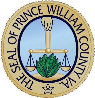 The official county seal of Prince William County, Virginia, adopted in January 1935.